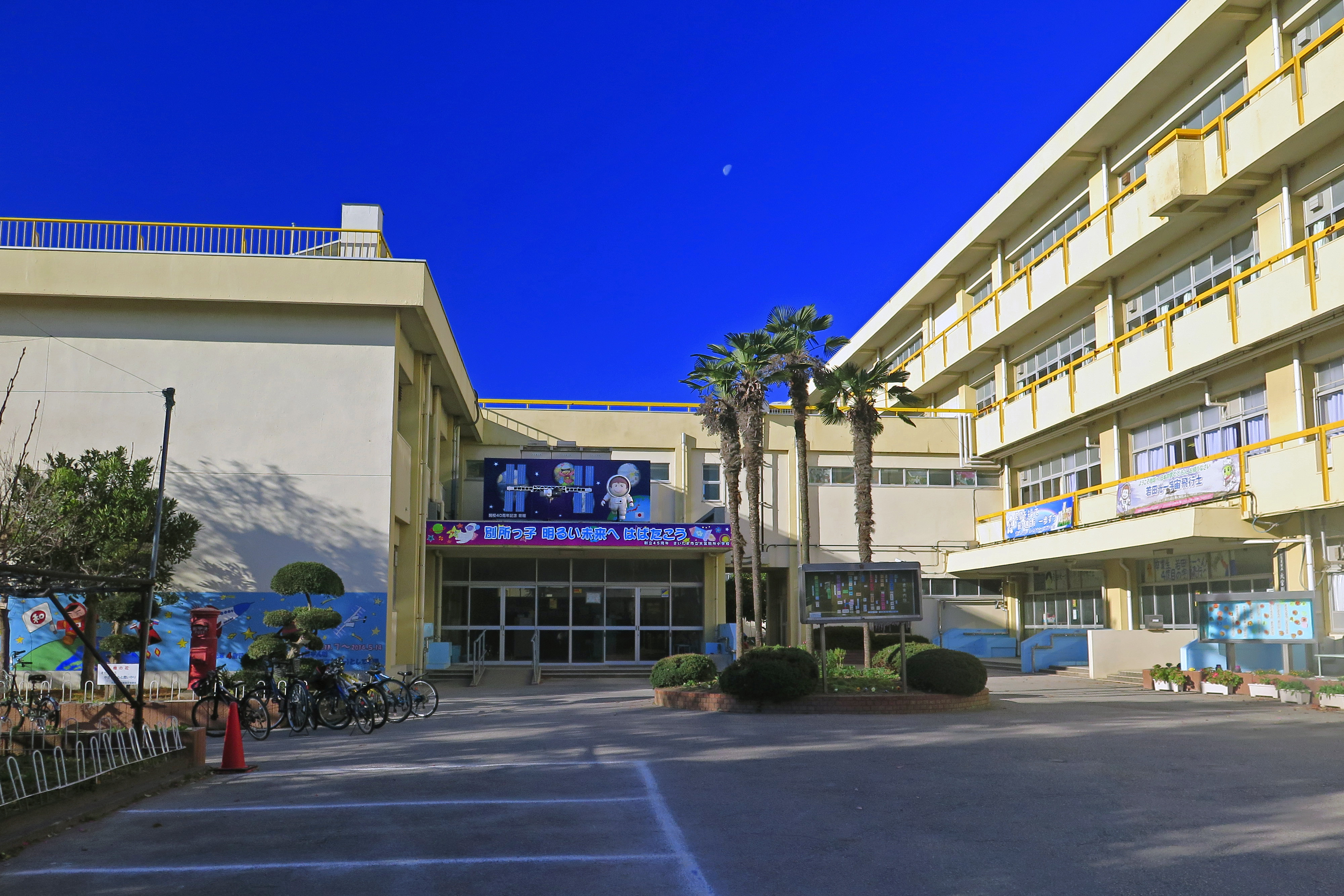 Saitama City Omiya-bessho Elementary School Kita Ward, Saitama-city, Saitama, Japan.